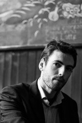 Author Kevin Power.